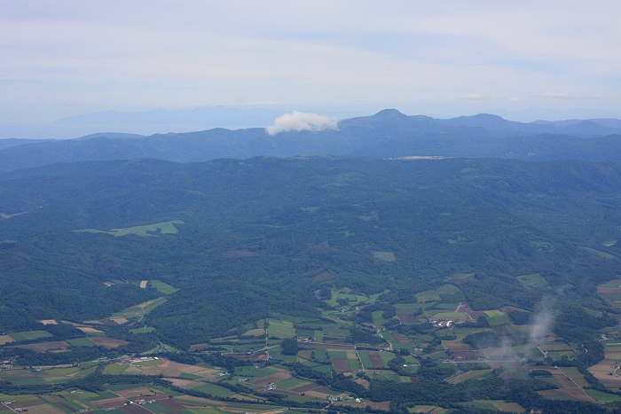 Looking the Northeast from Mount Yotei.